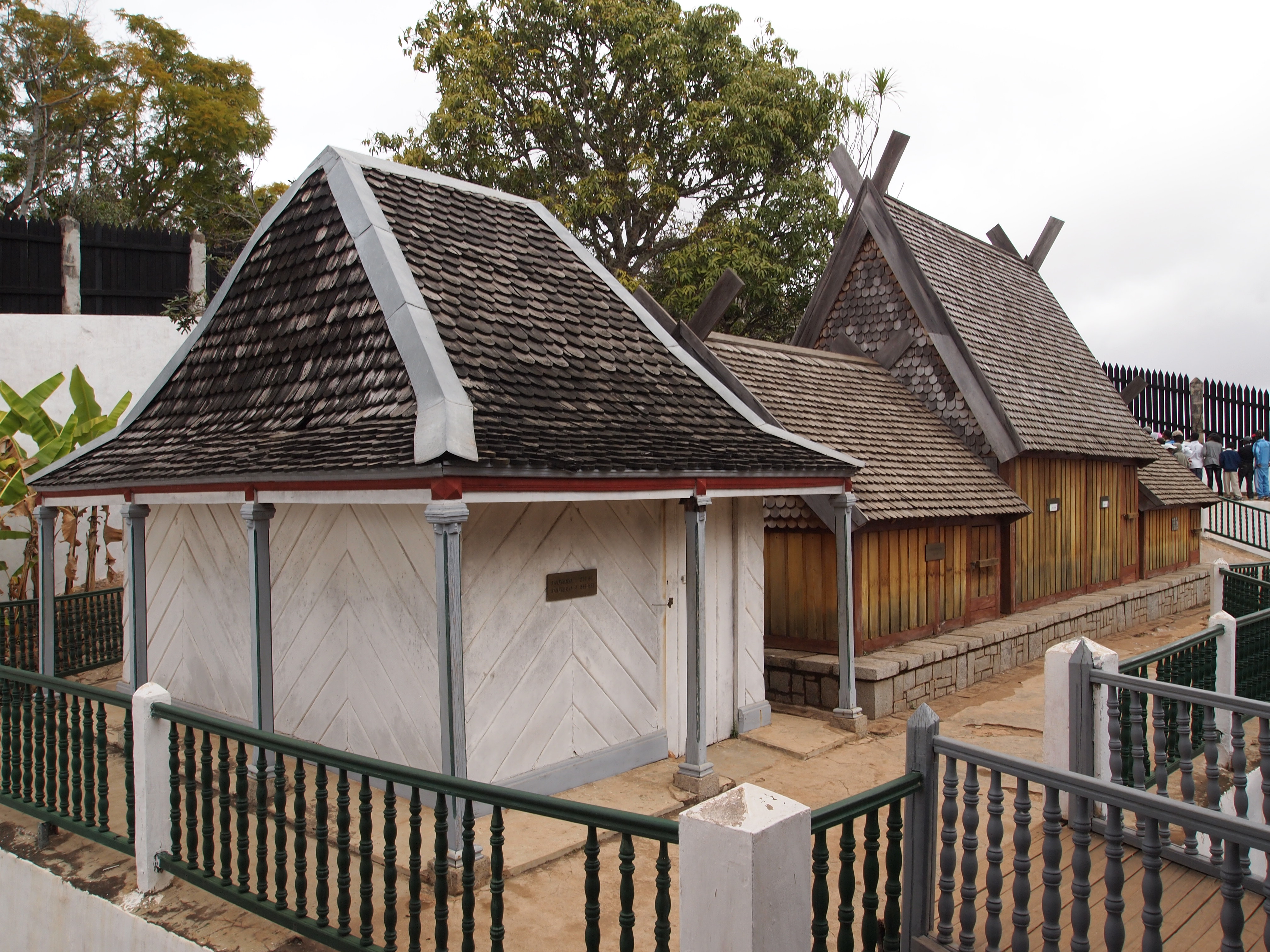 Madagascar Rova ambohimanga royal tombs